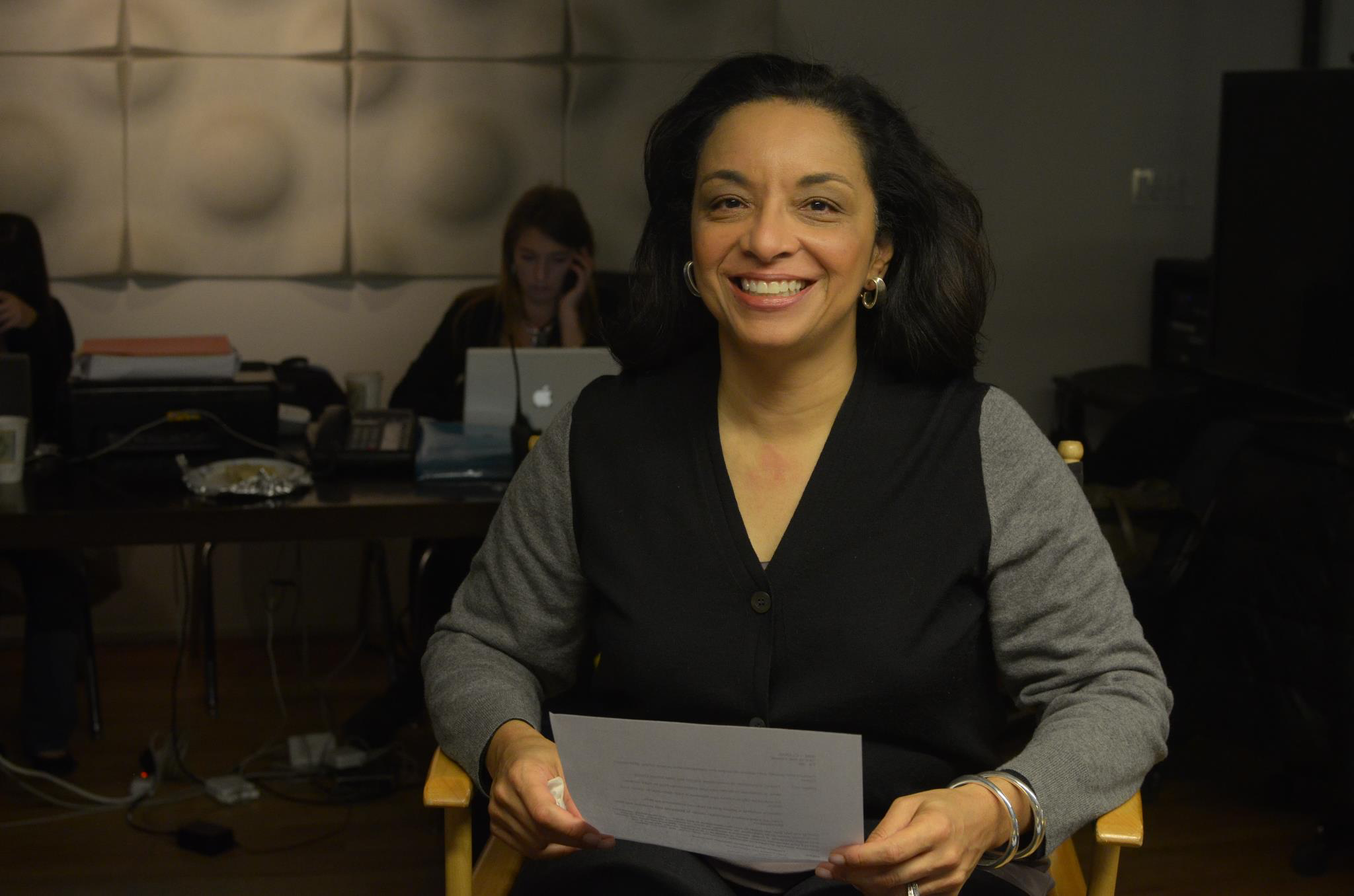 Photo was taken behind the scenes of IBM's Cloud Commercial.